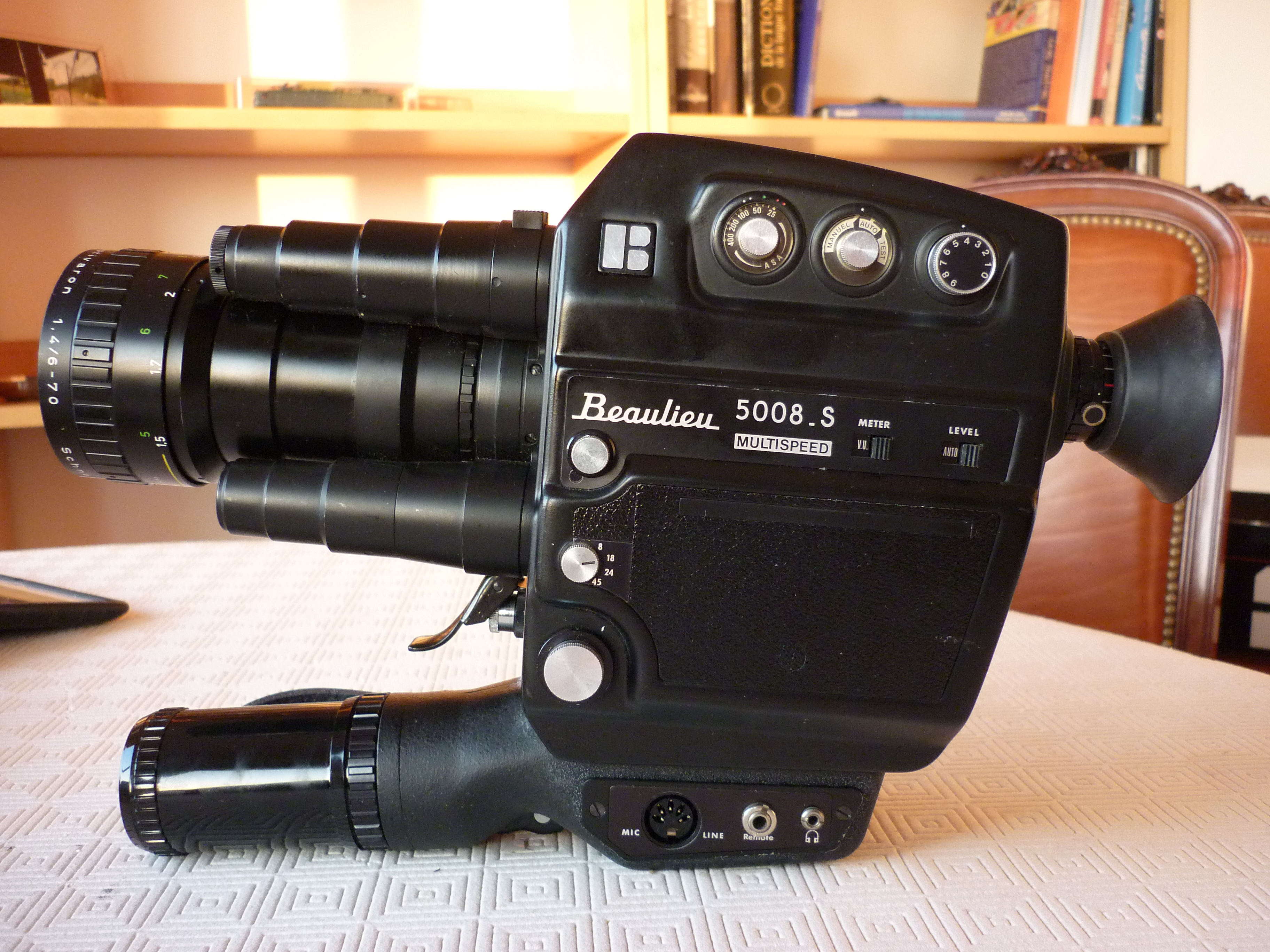 Beaulieu 5008_S Multispeed